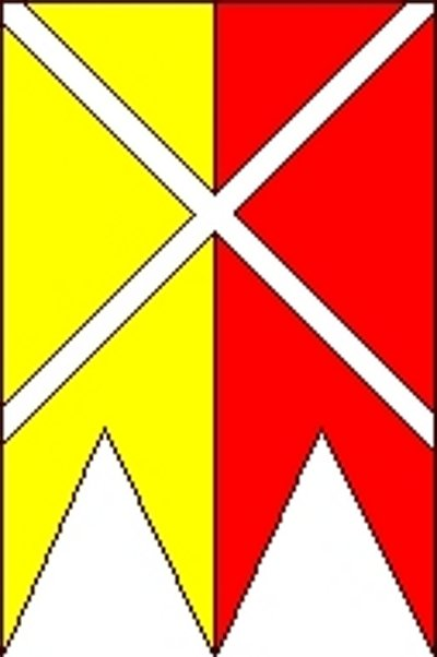 Flag of Mníšek nad Hnilcom